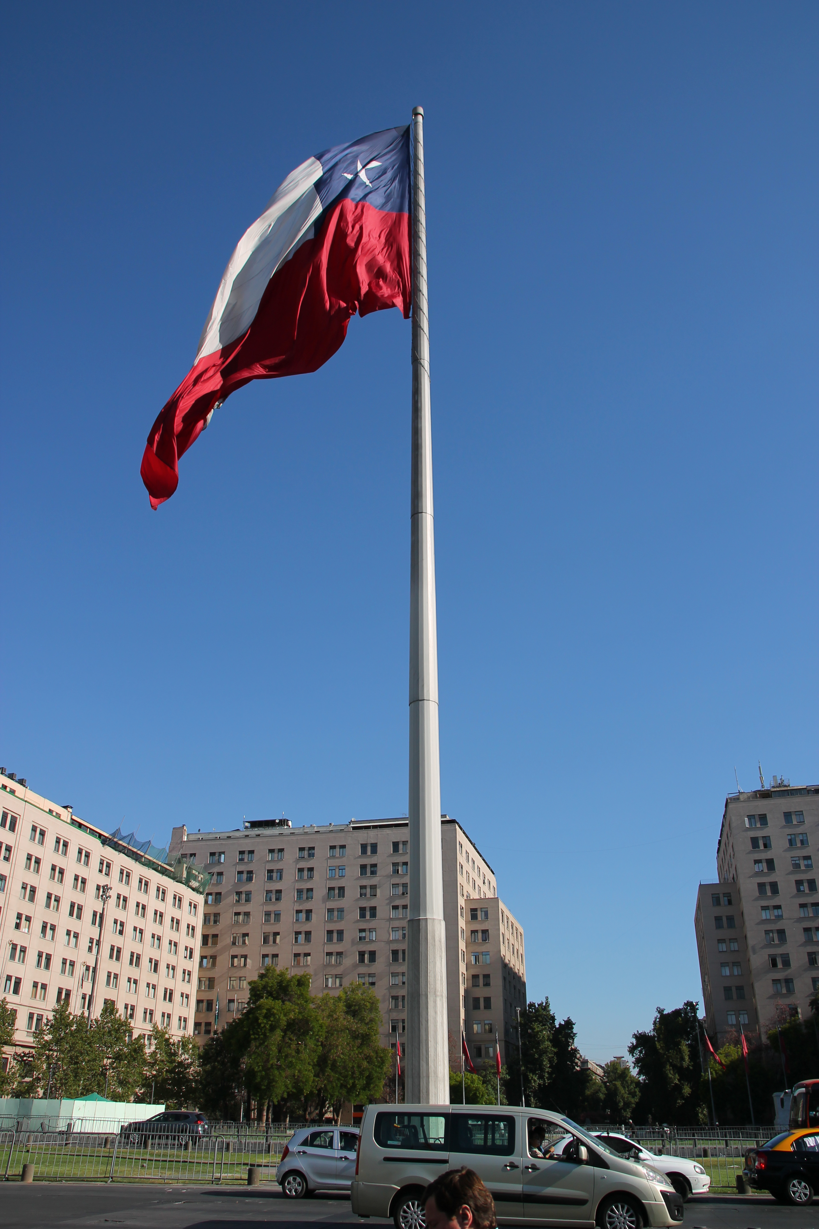 200 years flag, Santiago de Chile